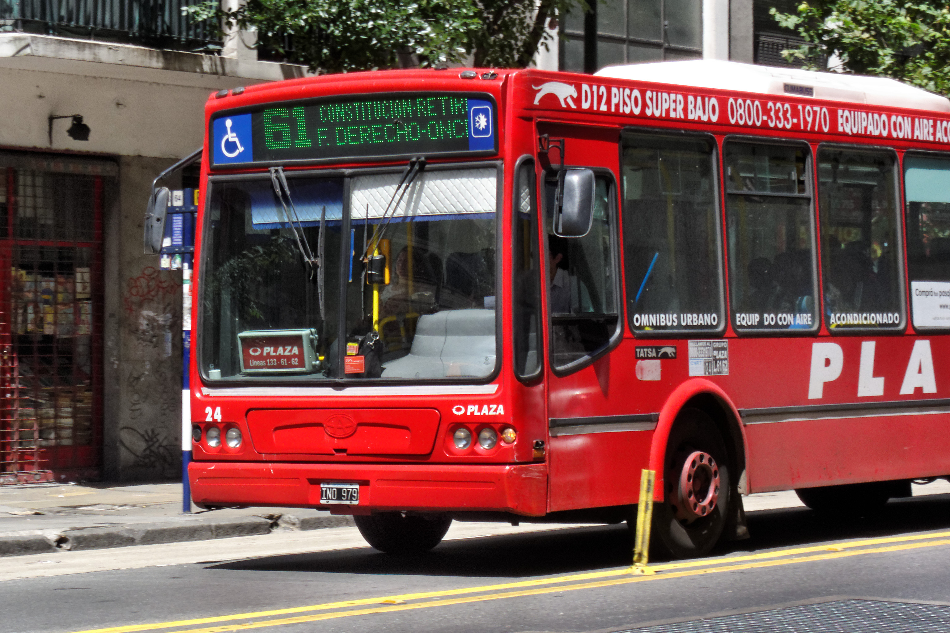 TATSA Puma D12 bus (reg. INO 979, #24) in Buenos Aires, Argentina. Colectivo, line 61, Transporte Automotor PLAZA S.A.C.I. operator.